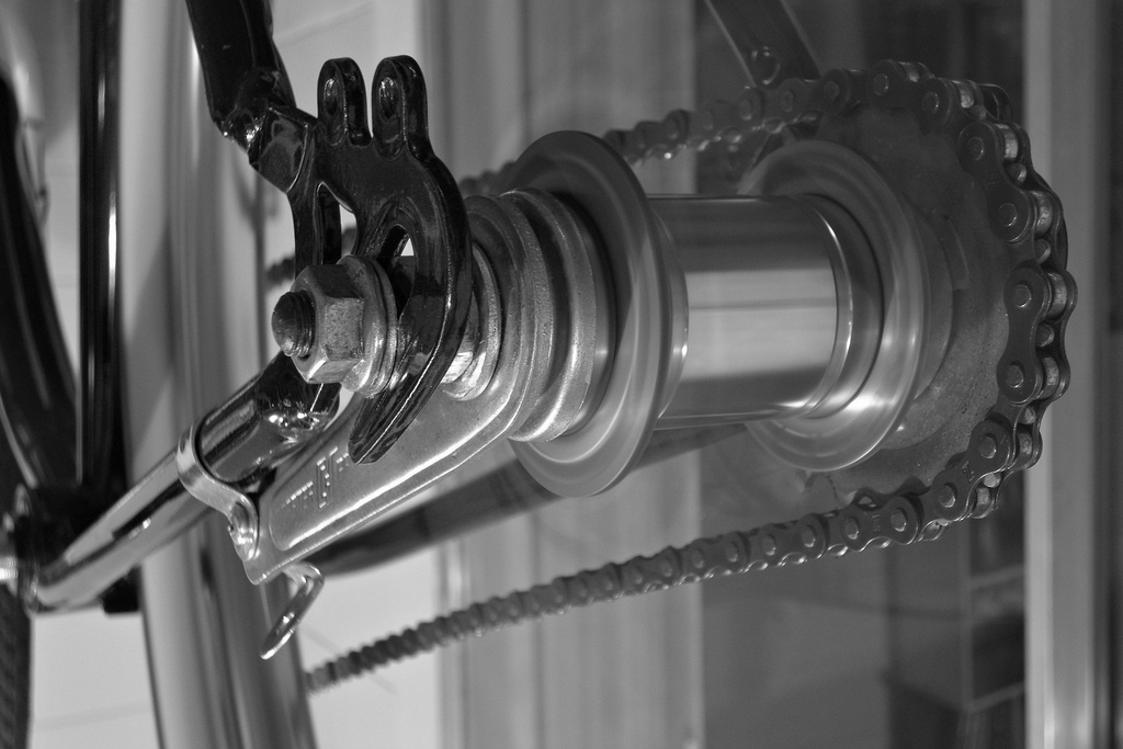 Single-speed coaster brake (backpedaling) is part of the one-speed revolution